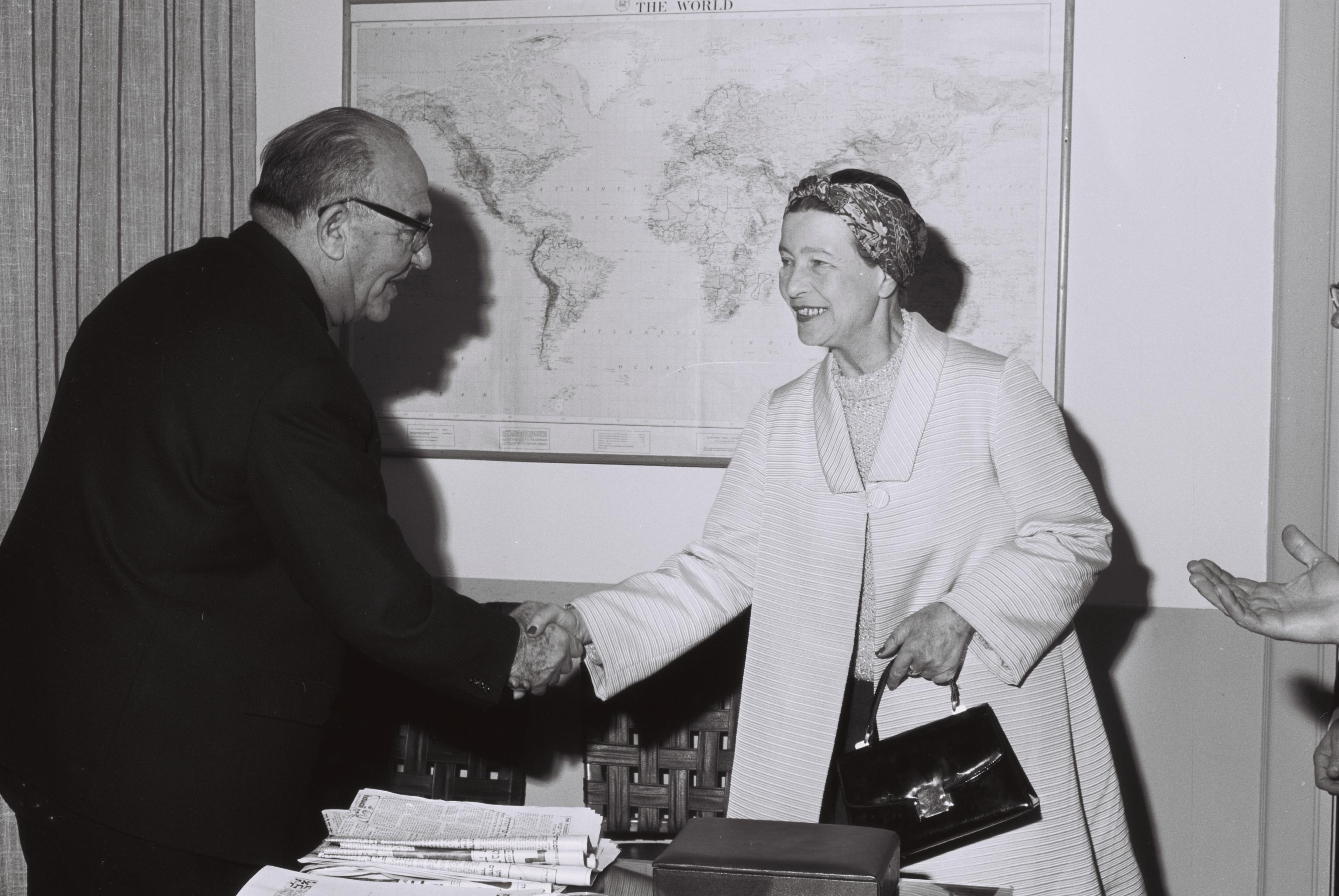 Prime minister Levy Eshkol welcoming french writer Simone de Beauvoir in his office at HaKirya in Tel Aviv.